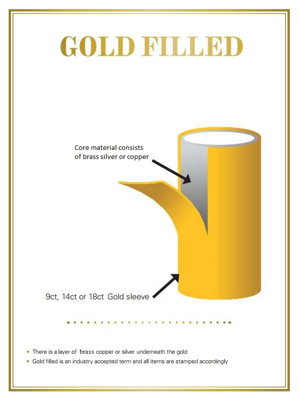 Gold Filled item Diagram